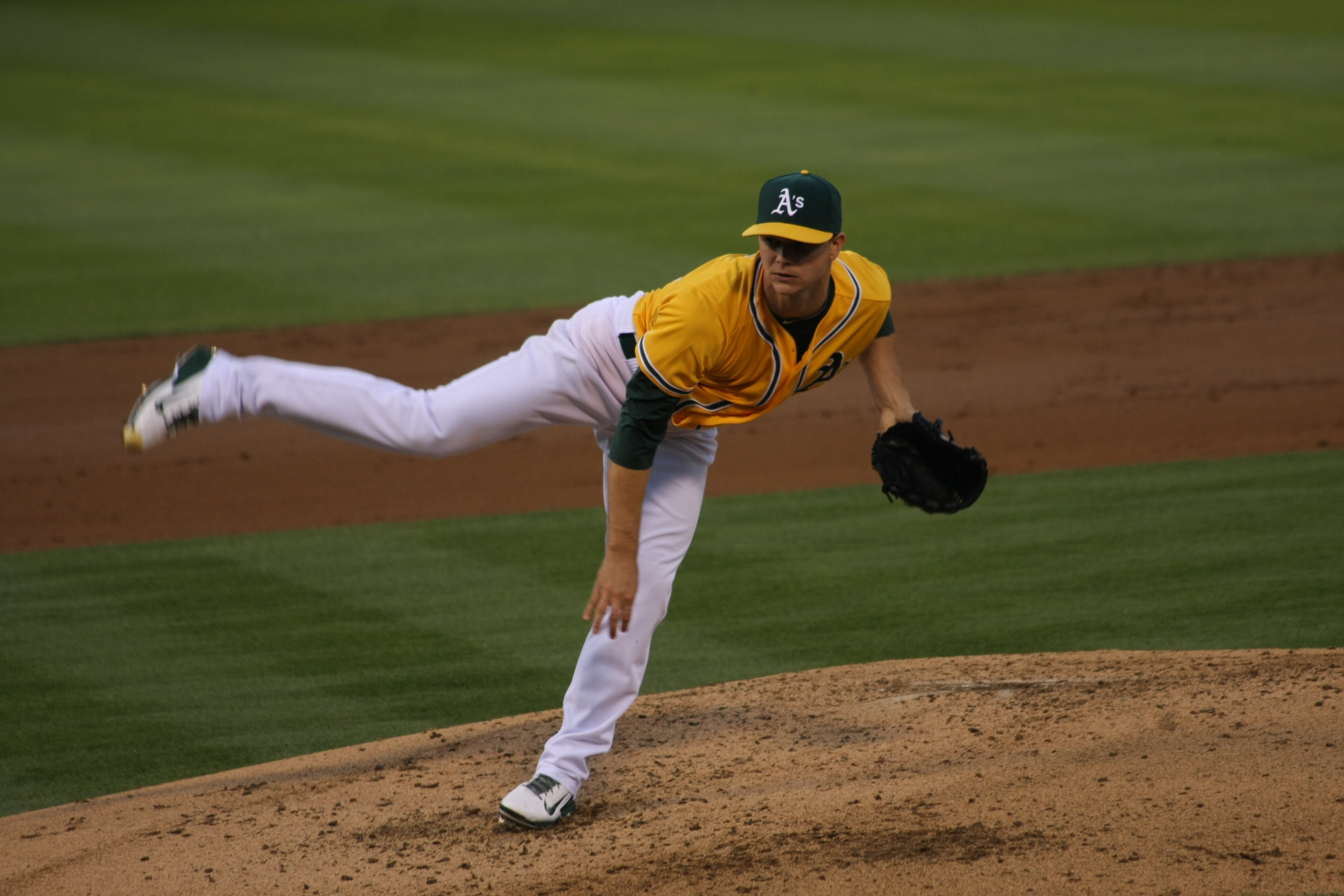 Oakland A's pitcher Sonny Gray - Mariners at A's, August 20, 2013